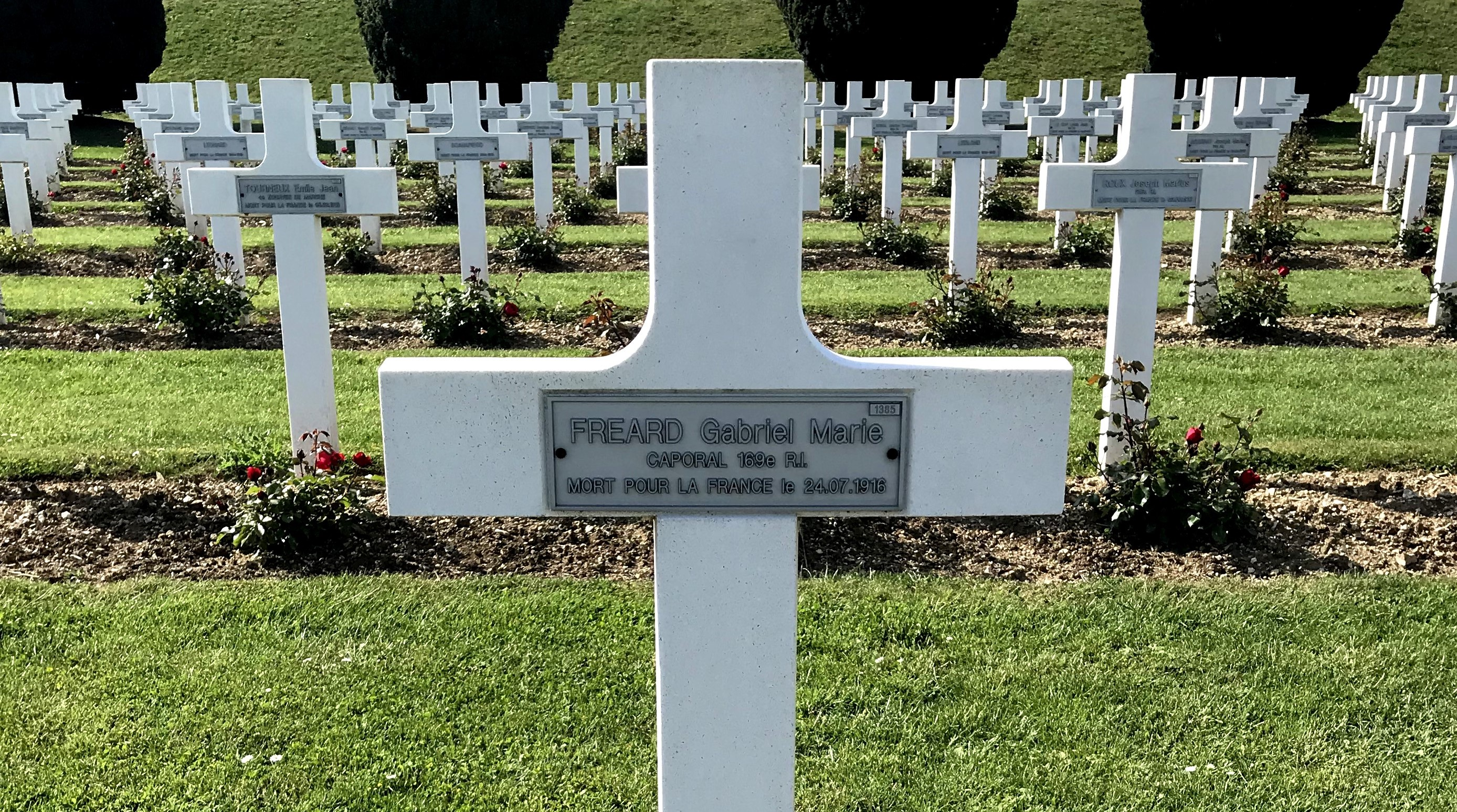 Gabriel Marie Freard corporal's grave in Douaumont Ossuary, close to Verdun, France